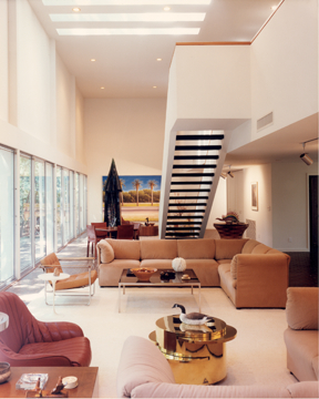 Brochstein House in Houston, TX by William T. Cannady, 1972